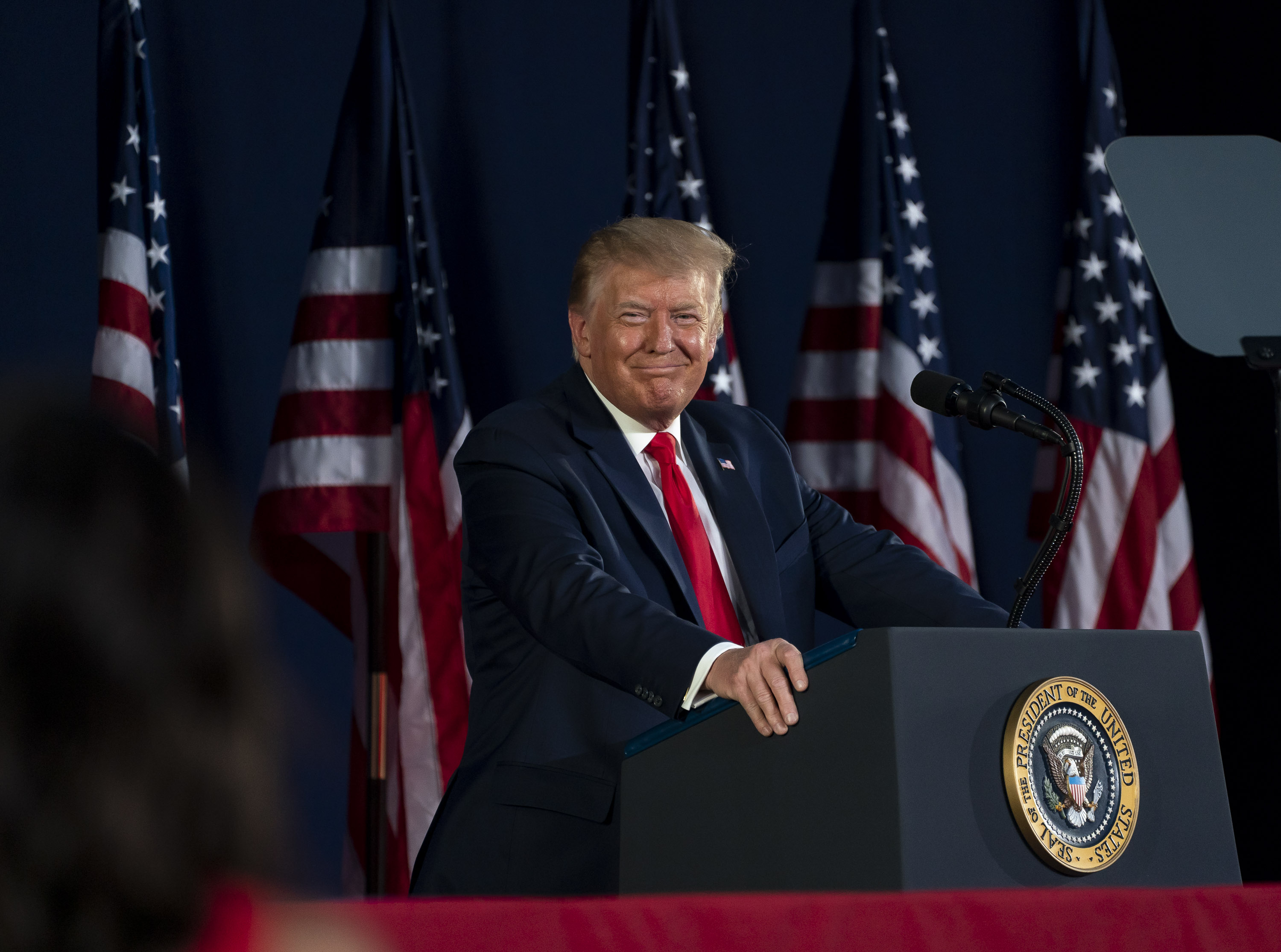 President Donald J. Trump delivers remarks Friday, July 3, 2020, at South Dakota’s 2020 Mount Rushmore Fireworks Celebration at the Mount Rushmore National Memorial in Keystone, S.D. (Official White House Photo by Tia Dufour)